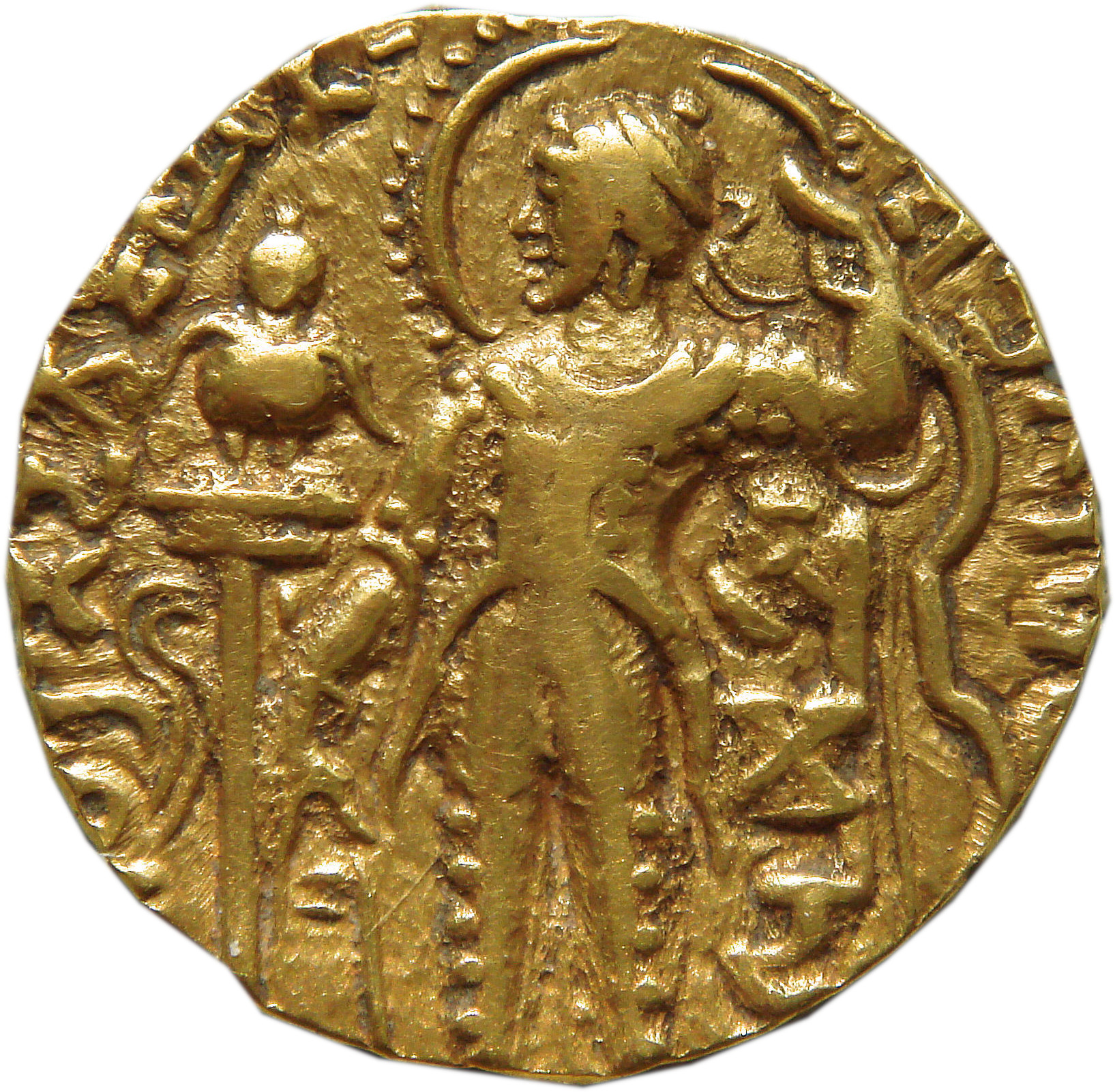 Coin of the Gupta king Samudragupta.